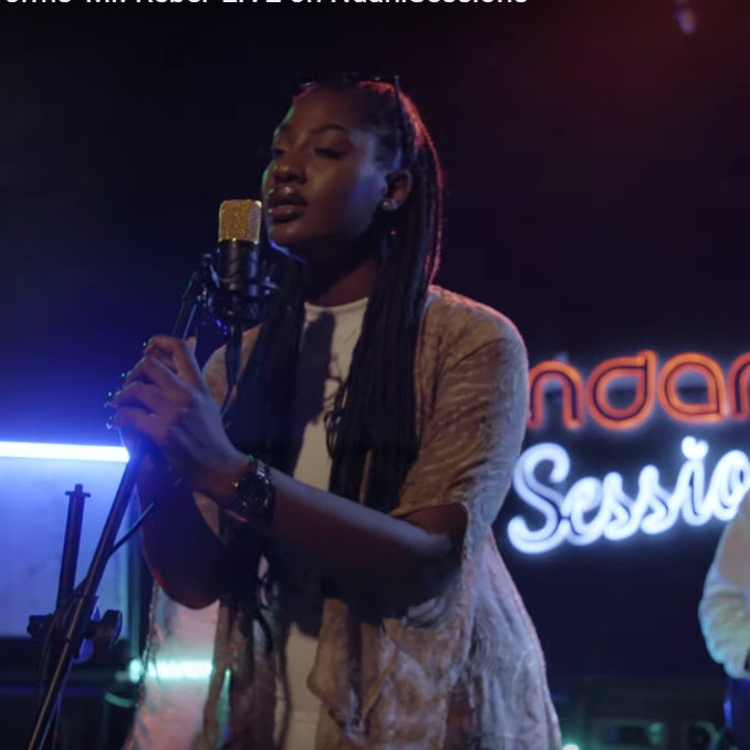 Tems singing "Mr Rebel" on NdaniTV Sessions Jan 2019